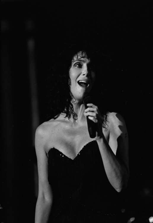 Cher at the Pediatric AIDS Foundation. She did a pocket show with five songs and talked about her split with bagel boy Rob Camilletti: "I just broke up with my boyfriend, so this next song ['We All Sleep Alone'] is particularly meaningful to me.")